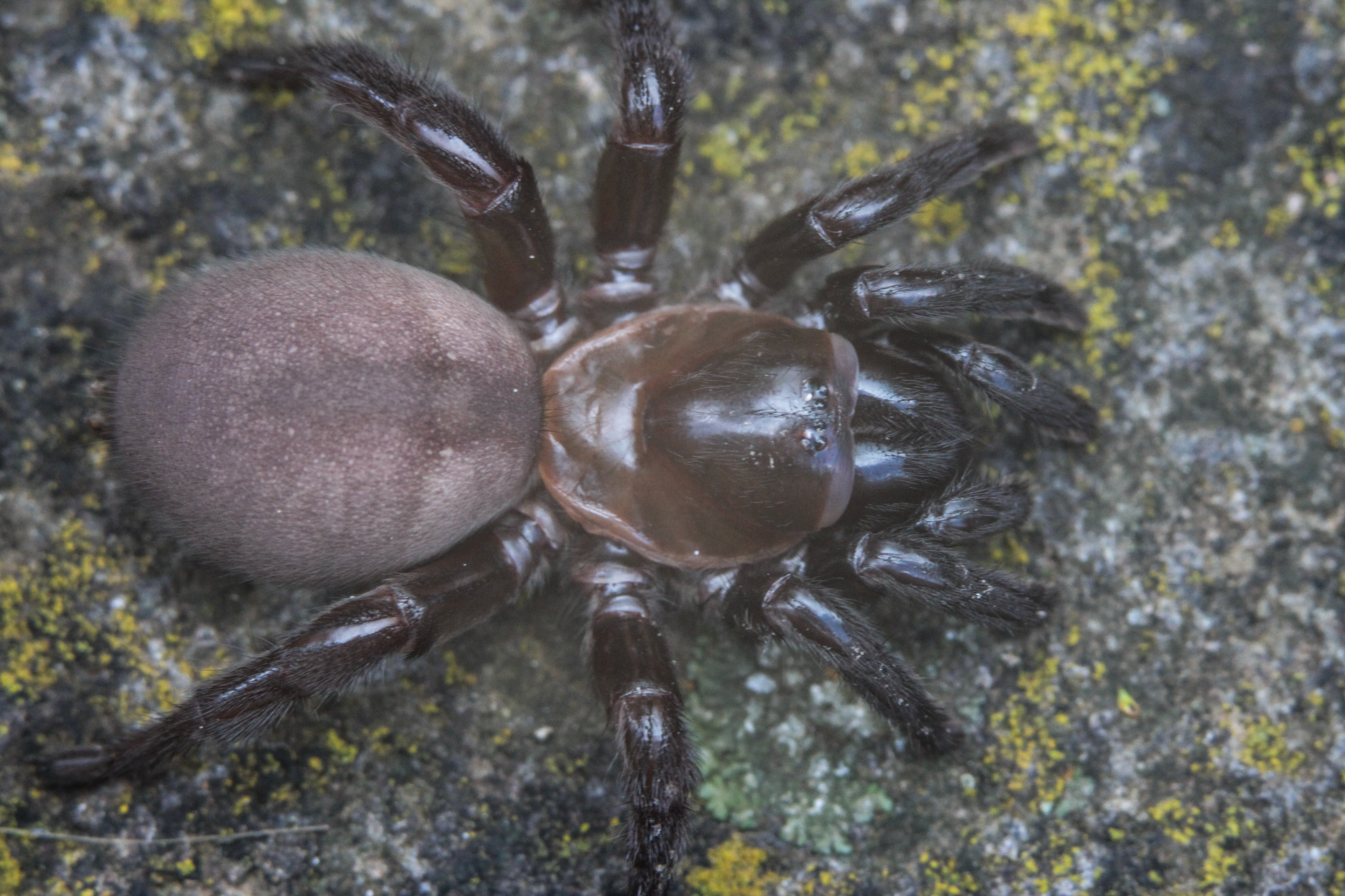 Female of a trap spider Amblyocarenum nuragicus, photographed in Laerru, Sardinia